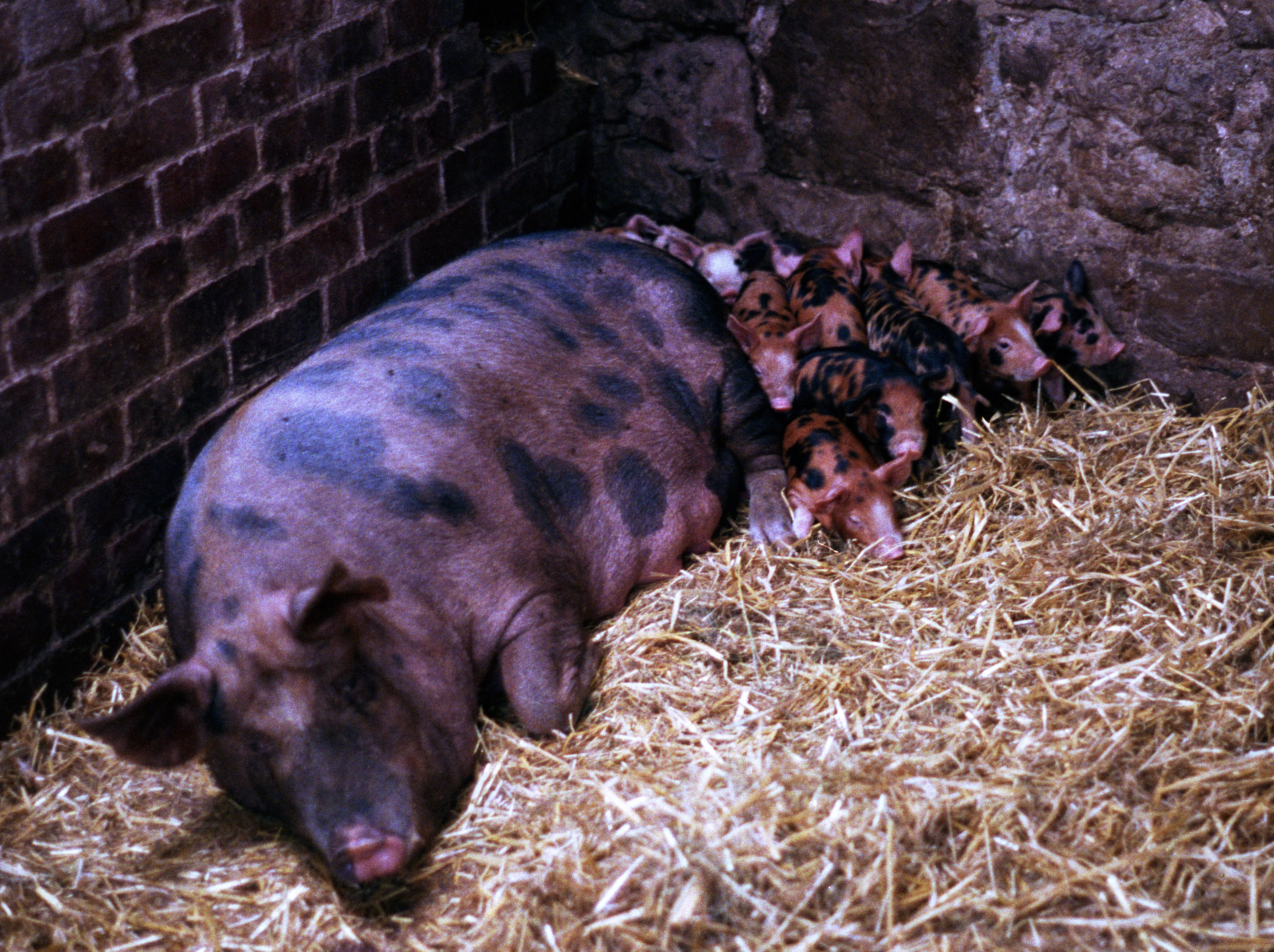 Gloucester Old Spot sow and piglets.